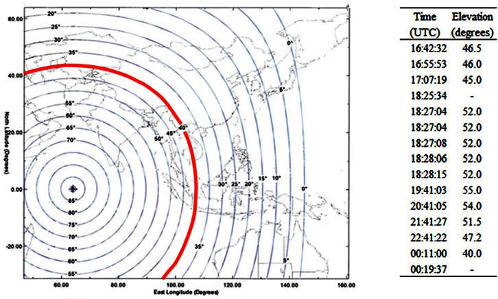 The BTO arc (highlighted in red) of the sixth handshake (00:11 UTC / 08:11 MYT) between Malaysia Airlines Flight 370 and the Inmarsat satellite communications network. The chart on the right lists the elevation angle of the satellite from the aircraft at several of the transmissions. A version of this map was publicly released by the Malaysian government on 15 March 2015, with the arc divided into two arcs (the Northern and Southern Corridors), extending from Kazakhstan to Laos/Thailand and from south of Java into the southern Indian Ocean (roughly where the bottom edge of this map). This graphic was released in October after further analysis, but the elevation angle of the sixth handshake remains unchanged.